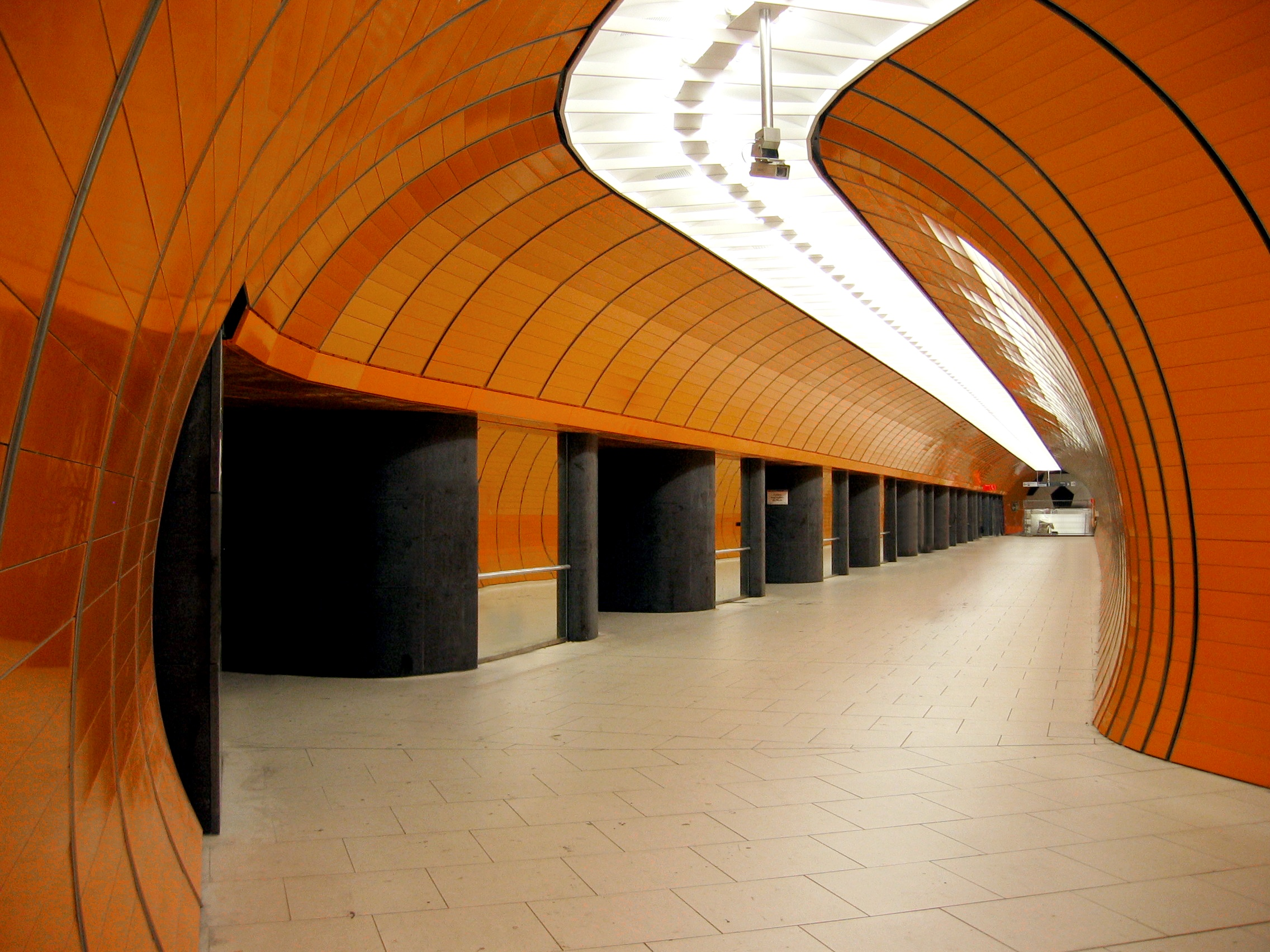 Munich subway station Marienplatz (U3/U6), extension tunnel